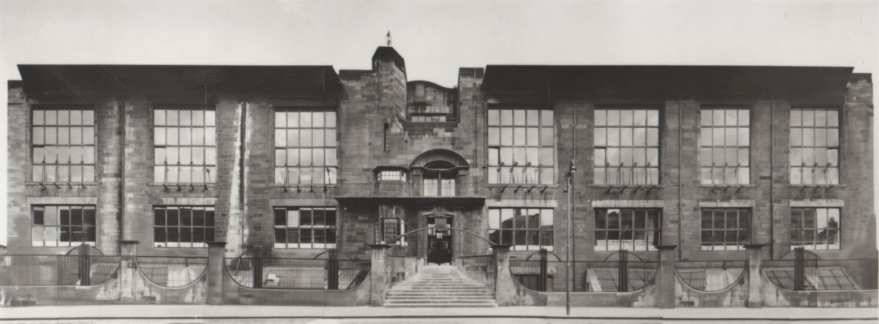 Glasgow School of Art designed by architect Charles Rennie Macintosh